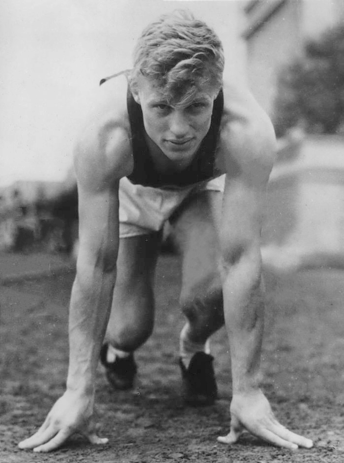 1932 Press Photo Bob Kiesel USC track star 100 yards in 9.7 seconds - nes37782